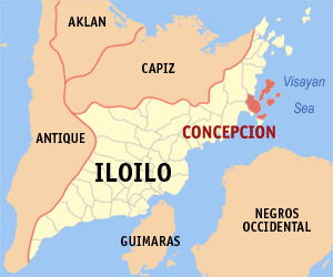 Map of Iloilo showing the location of Concepcion